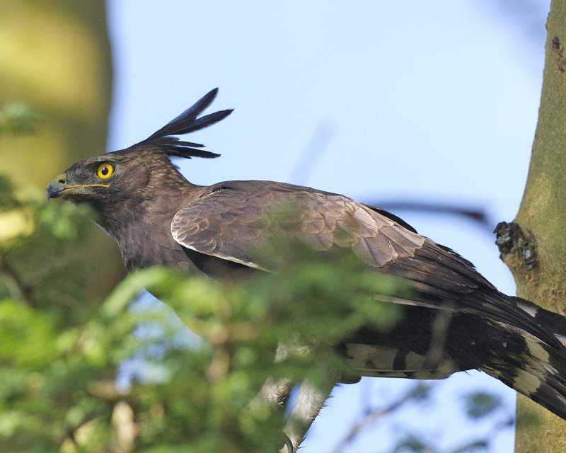 Long-crested eagle, (Lophaetus occipitalis) or Tai Ushungi in Swahili. Lake Nakuru, Kenya, August 31, 2008.